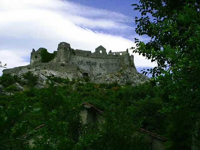 Žabljak Crnojevića Castle in Montenegro